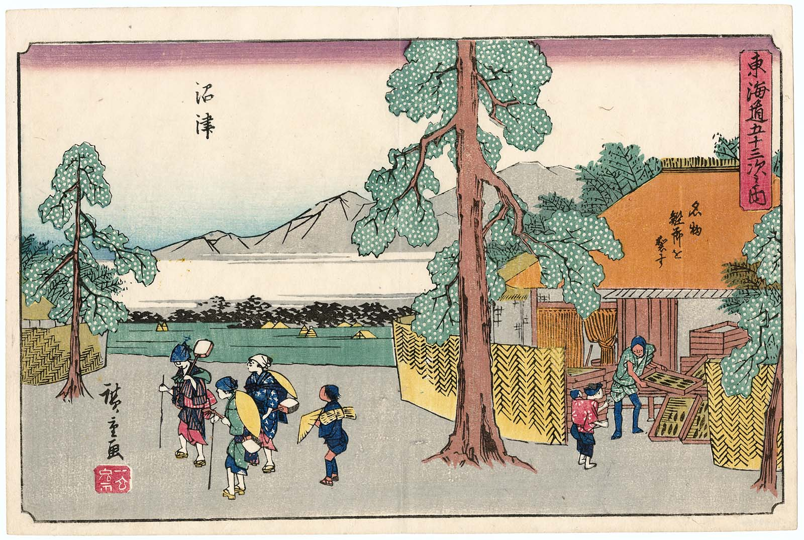 Numazu: Making the Famous Dried Fish (Numazu, meibutsu katsuobushi o seisu), from the series The Fifty-three Stations of the Tôkaidô Road (Tôkaidô gojûsan tsugi no uchi), also known as the Gyôsho Tôkaidô